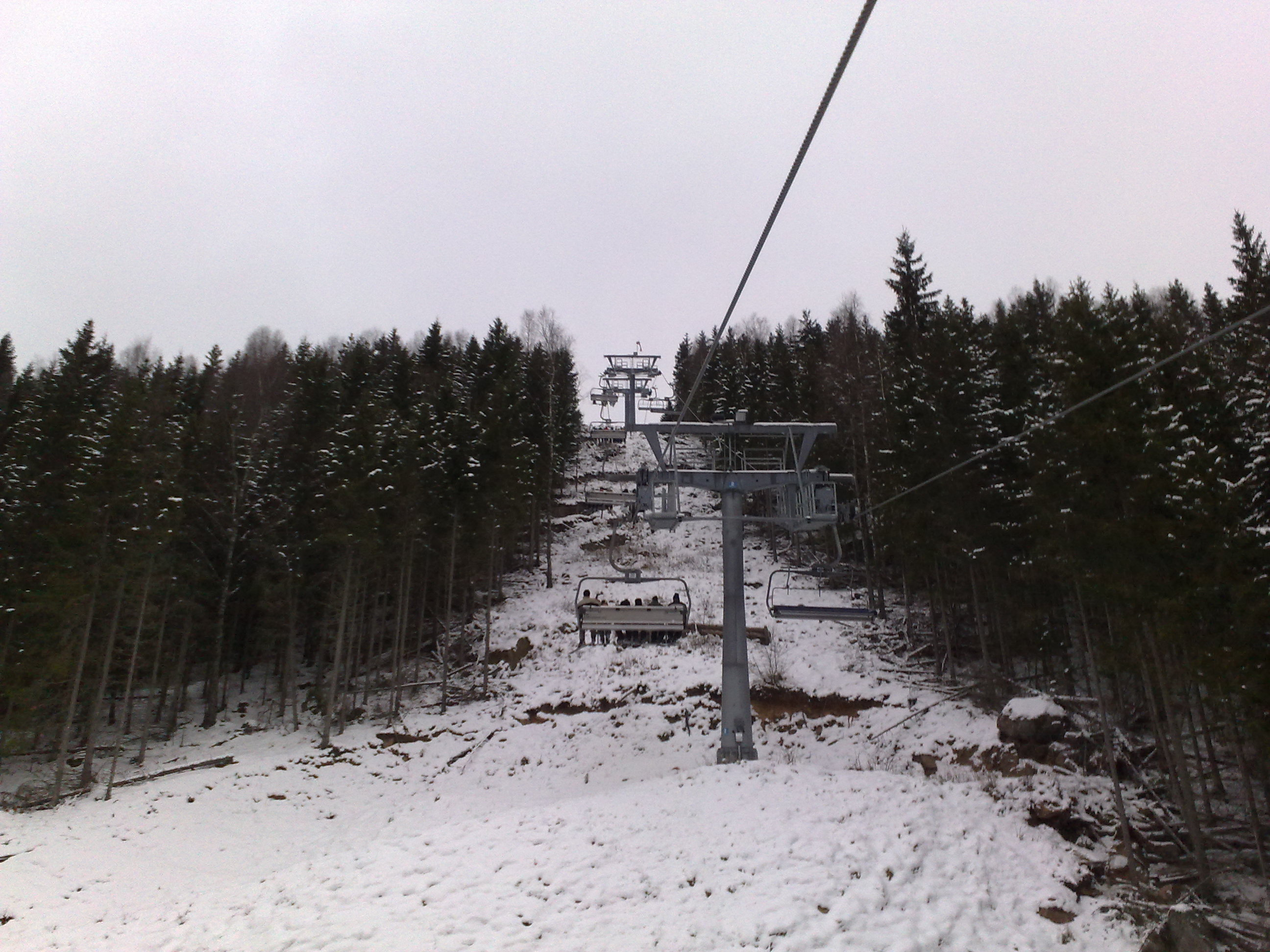 In six seated ski lift, on way to top of mountain Isaberg, Hestra, Sweden.